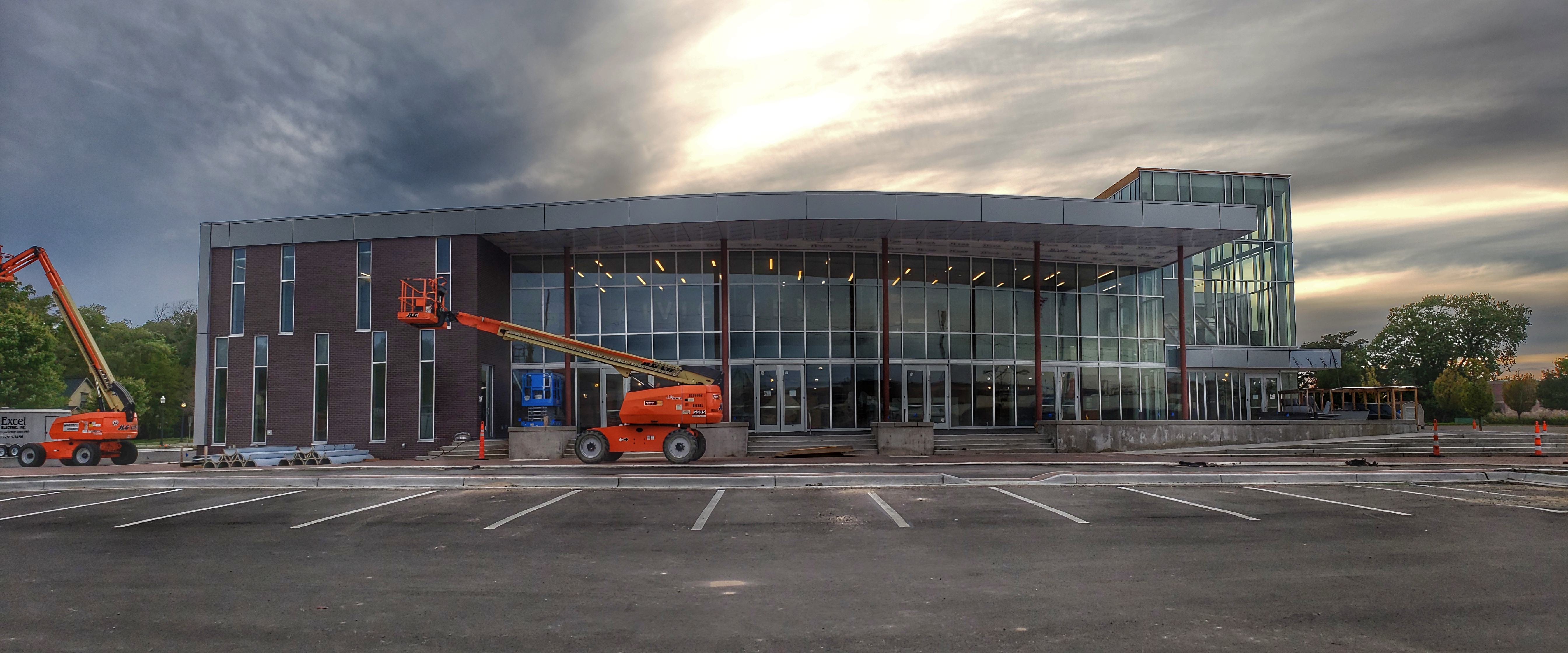 Nearing completion of the newly renovated Holland Civic Center